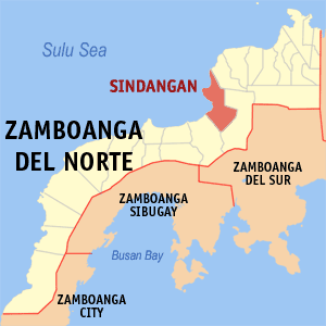 Map of the Zamboanga del Norte showing the location of Sindangan